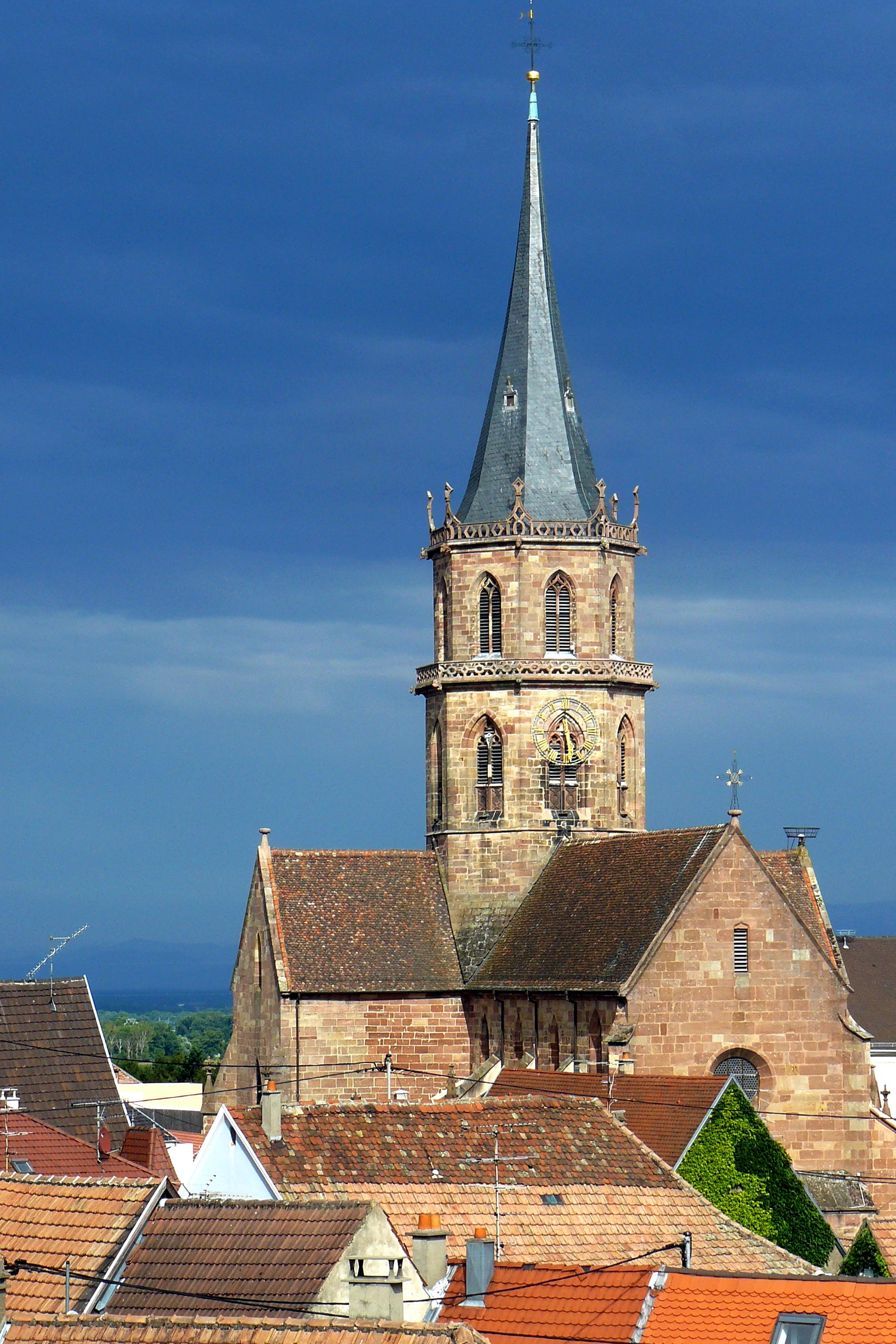 Church of Soultz-Haut-Rhin (France) as from the Bucheneck Castle